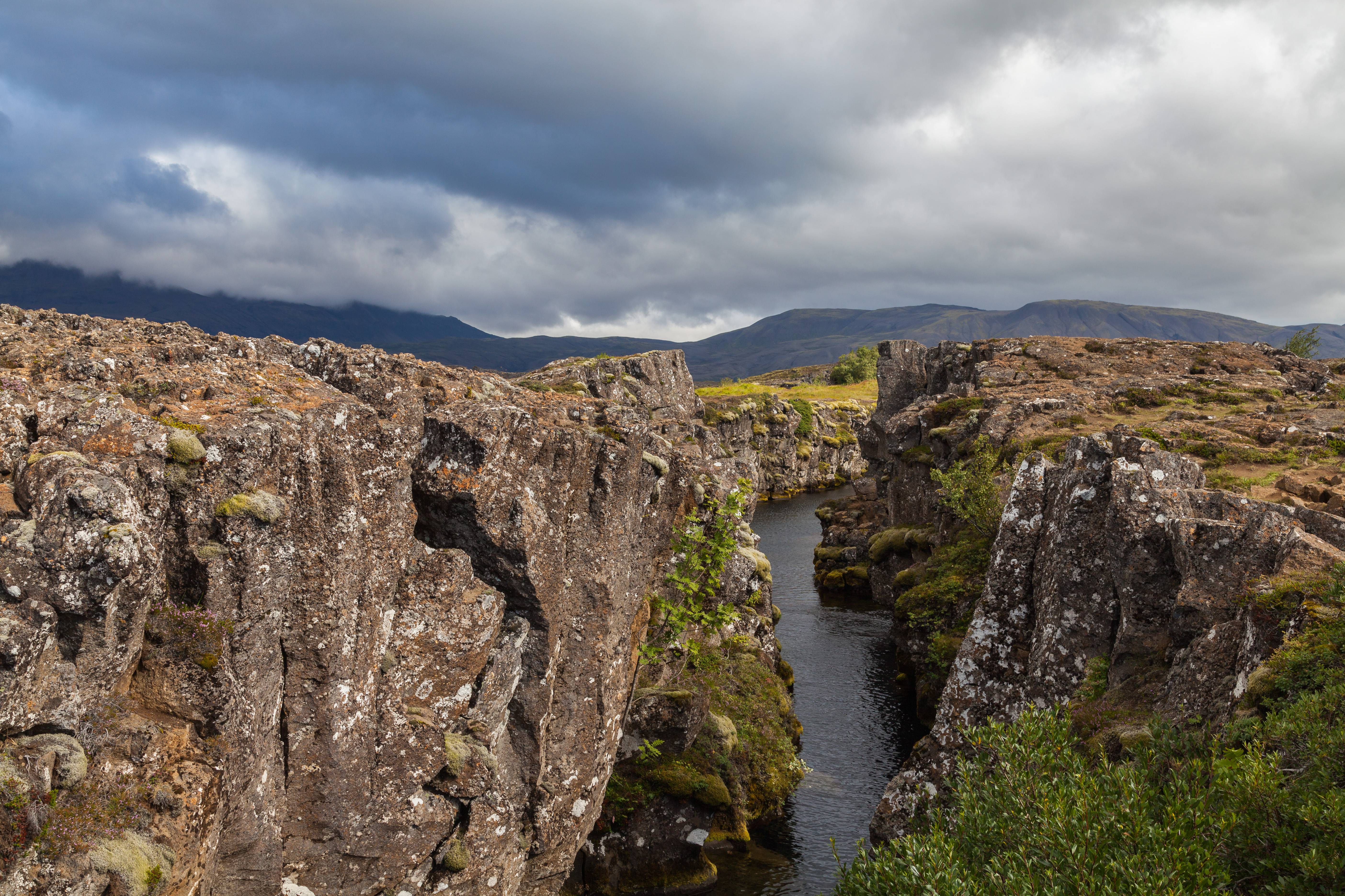 Flosagja canyon, Þingvellir National Park, Suðurland, Iceland